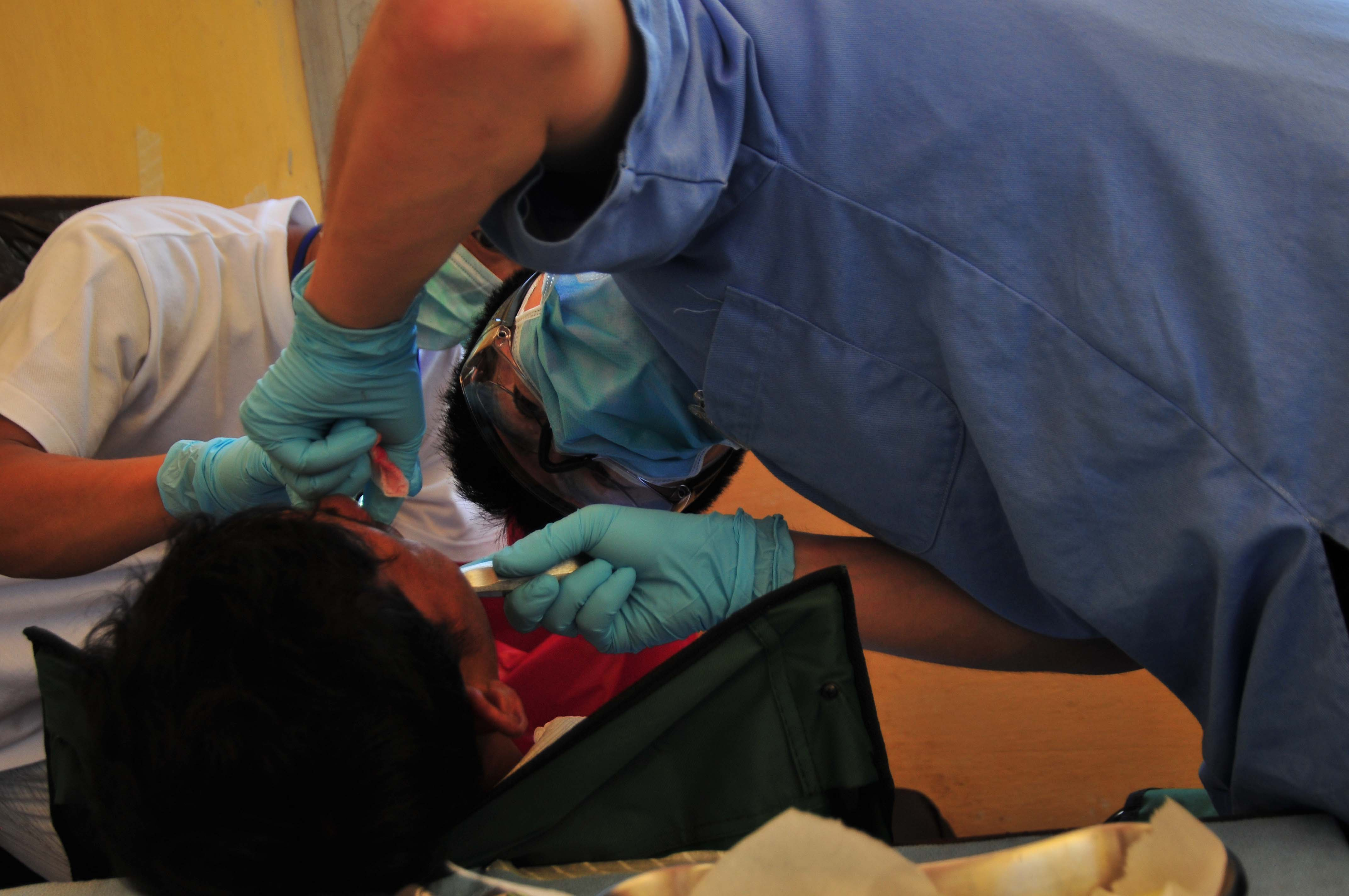 SIHANOUKVILLE, Cambodia (June 24, 2010) A dentist assigned to the Japan Maritime Self-Defense Force amphibious ship USS Kunisaki (LST 4003) examines a Cambodian child during a Pacific Partnership 2010 medical civic action event. Pacific Partnership 2010 is the fifth in a series of annual U.S. Pacific Fleet humanitarian and civic assistance endeavors to strengthen regional partnerships. (U.S. Army photo by Sgt. Craig Anderson/Released)